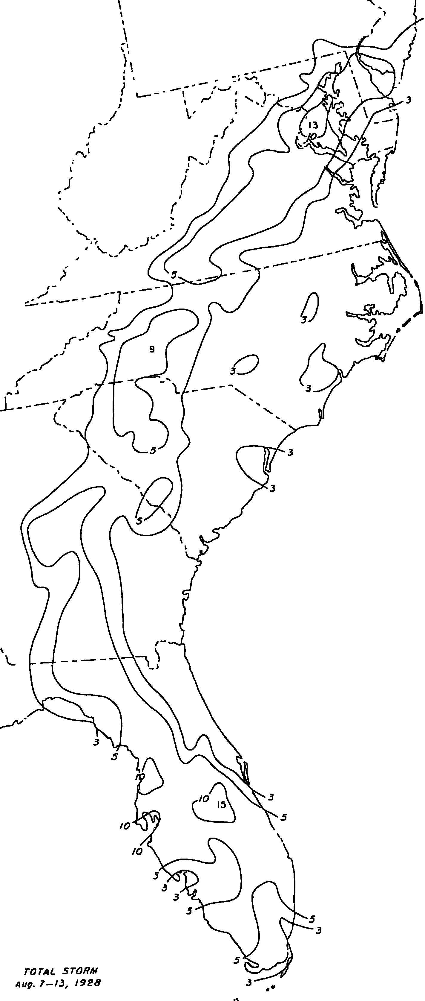 Rainfall totals in the United States East Coast from Hurricane One of the 1928 Atlantic hurricane season. The image was made by imaging several sections of the map at the highest zoom level, before stitching them together, ensuring the highest quality possible.